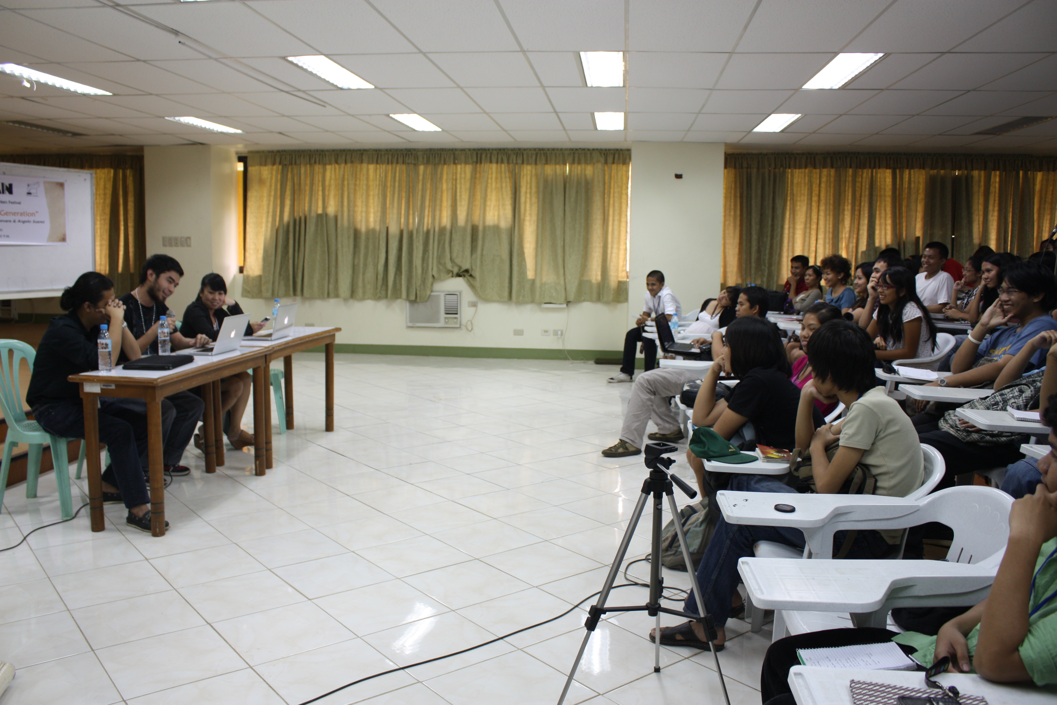 Students and faculty participating in a lecture seminar.